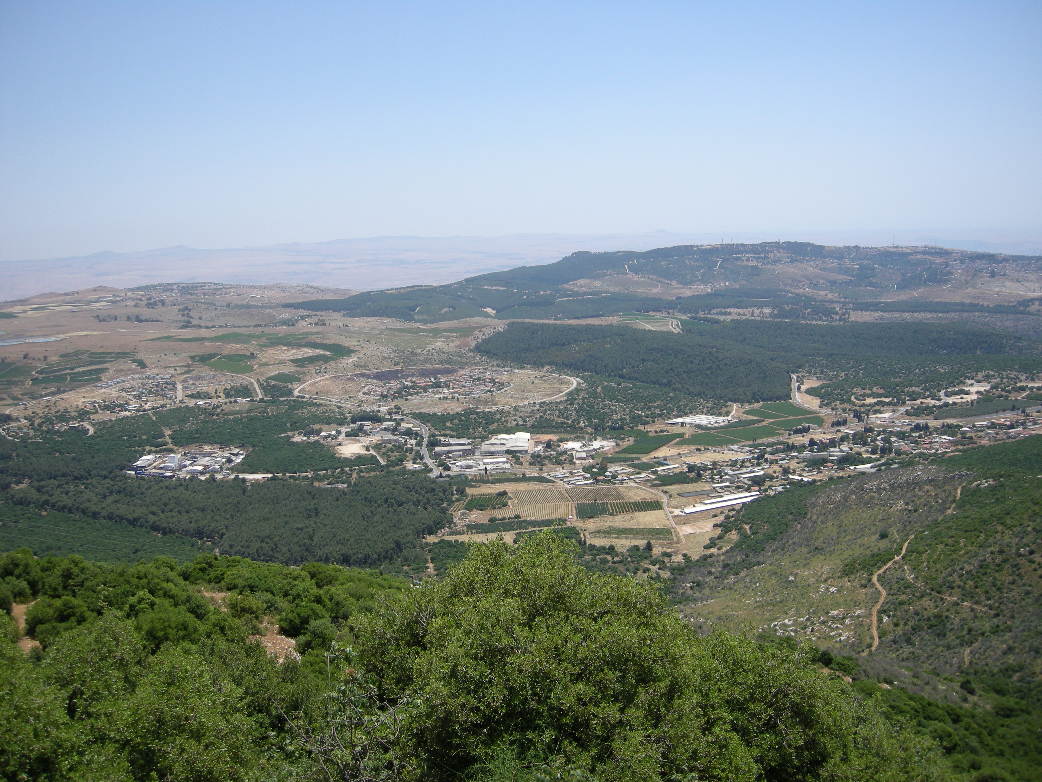 Mount Meron